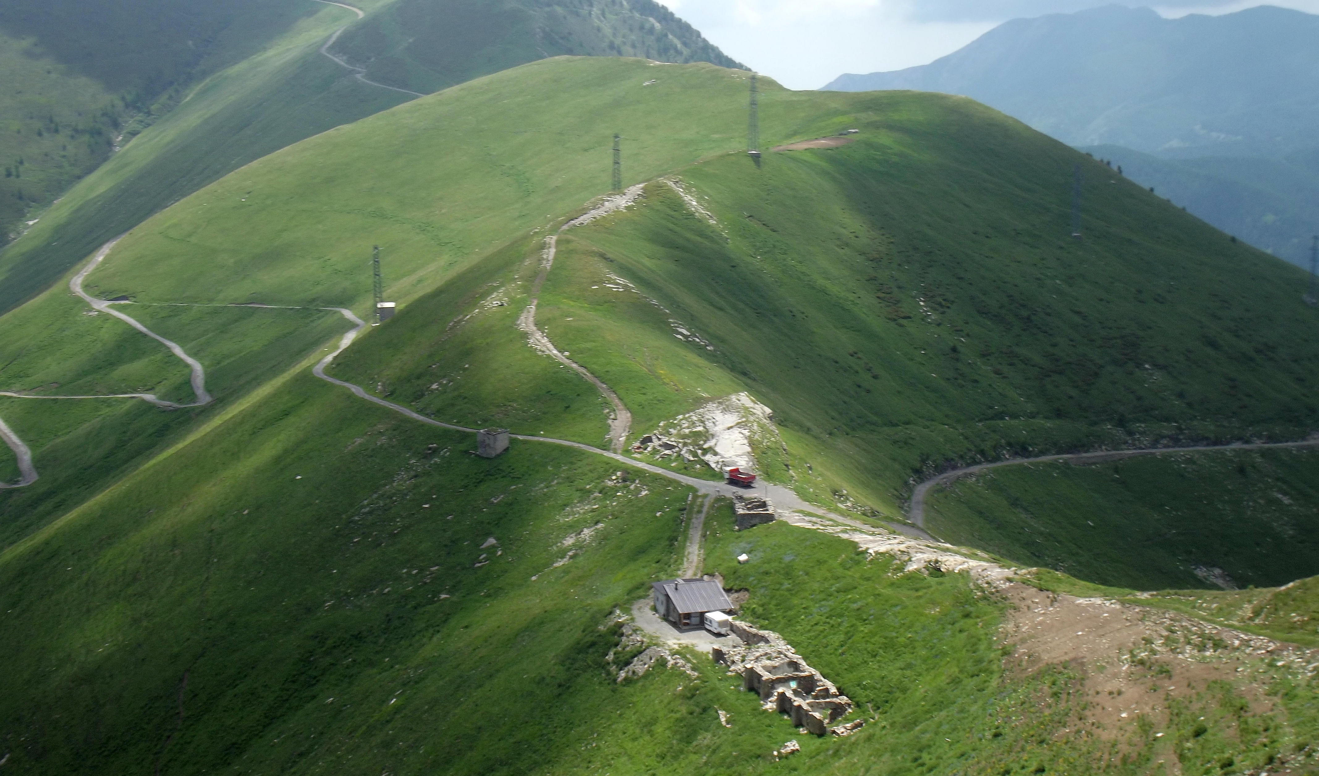 Mount Tanarello from Cima Ventosa